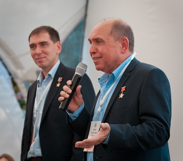 Sergey and Alexander Volkov, cosmonauts, heroes of USSR and Russia. Geek Picnic 2013